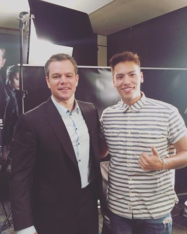 Matt Chung Interview Matt Damon in Seoul.